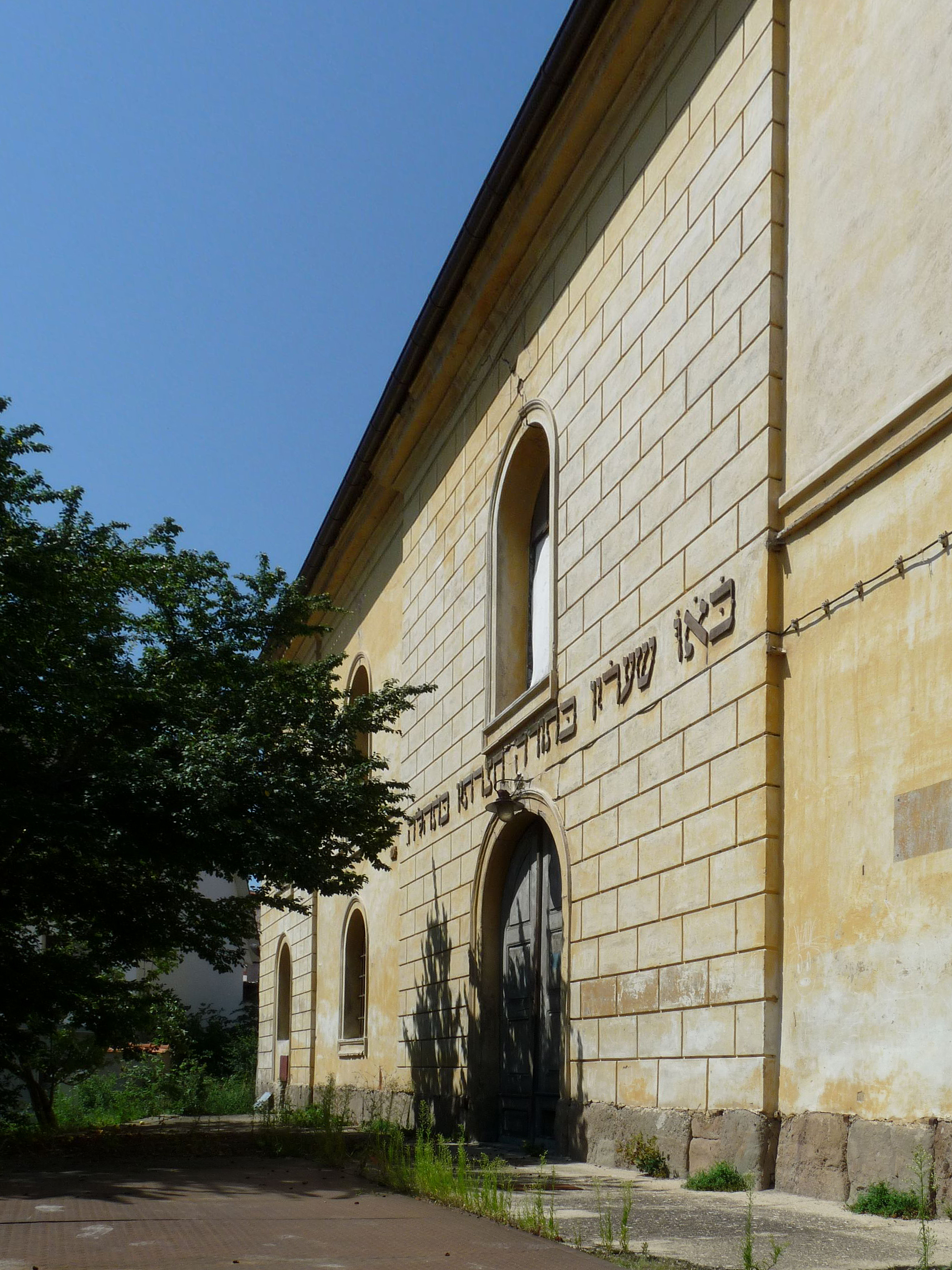 Former synagogue in the town of Ivančice, Brno-Country District, Czech Republic.